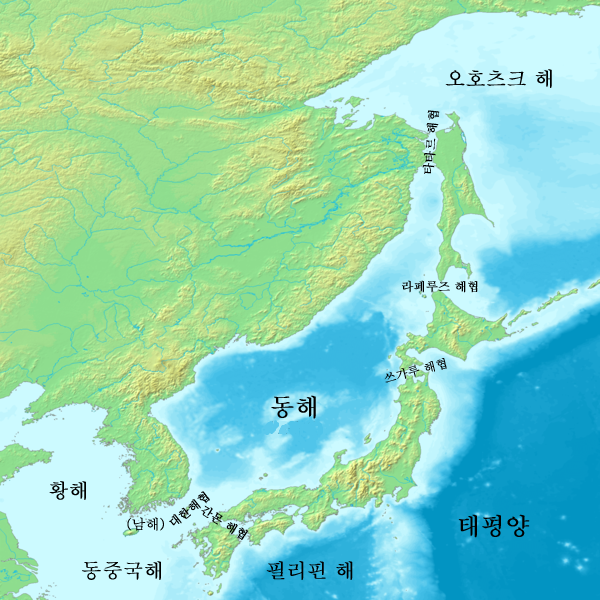 East Sea